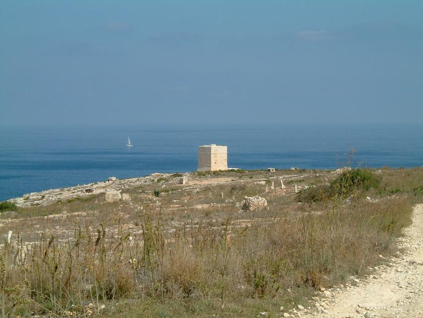 Madliena Tower, photo taken from cliffs to the South of the tower. This media is about Maltese cultural property with inventory number 50.